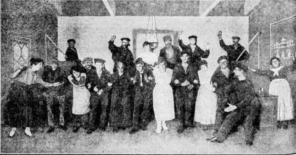 Cast and crew at 400th performance